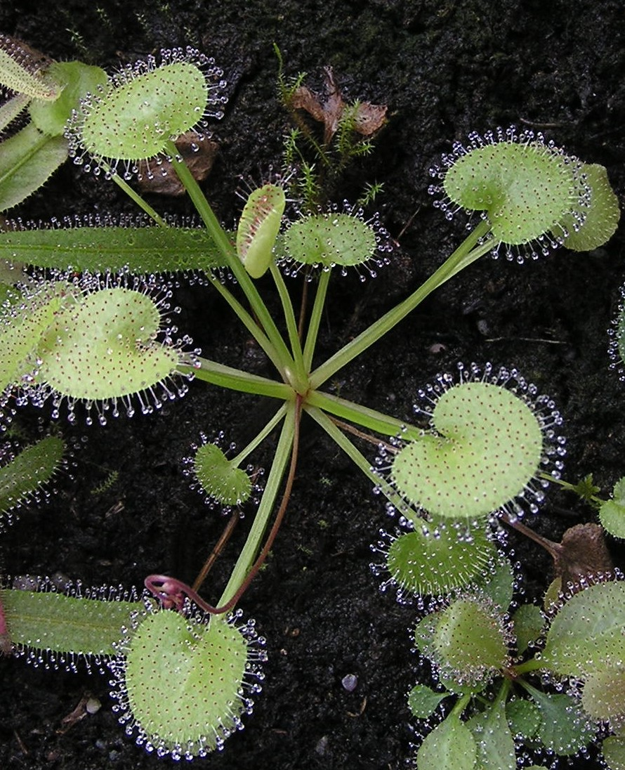 tentacles of Drosera prolifera